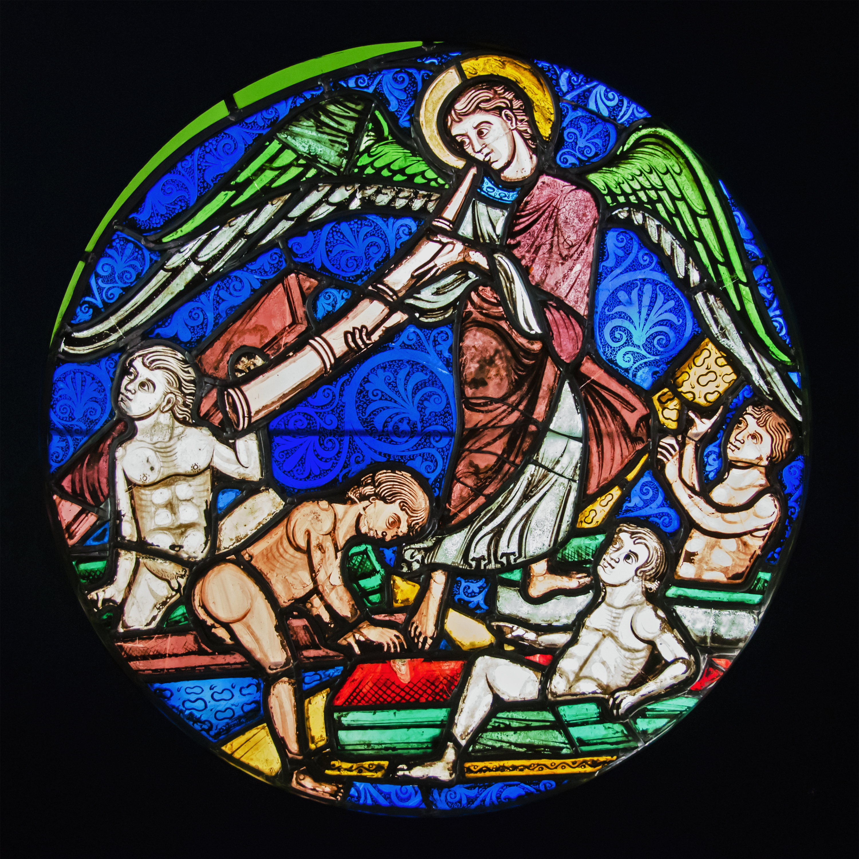 Resurrection of the dead, stained glass from the Sainte-Chapelle. circa 1200 - Musée national du Moyen Âge, Paris.